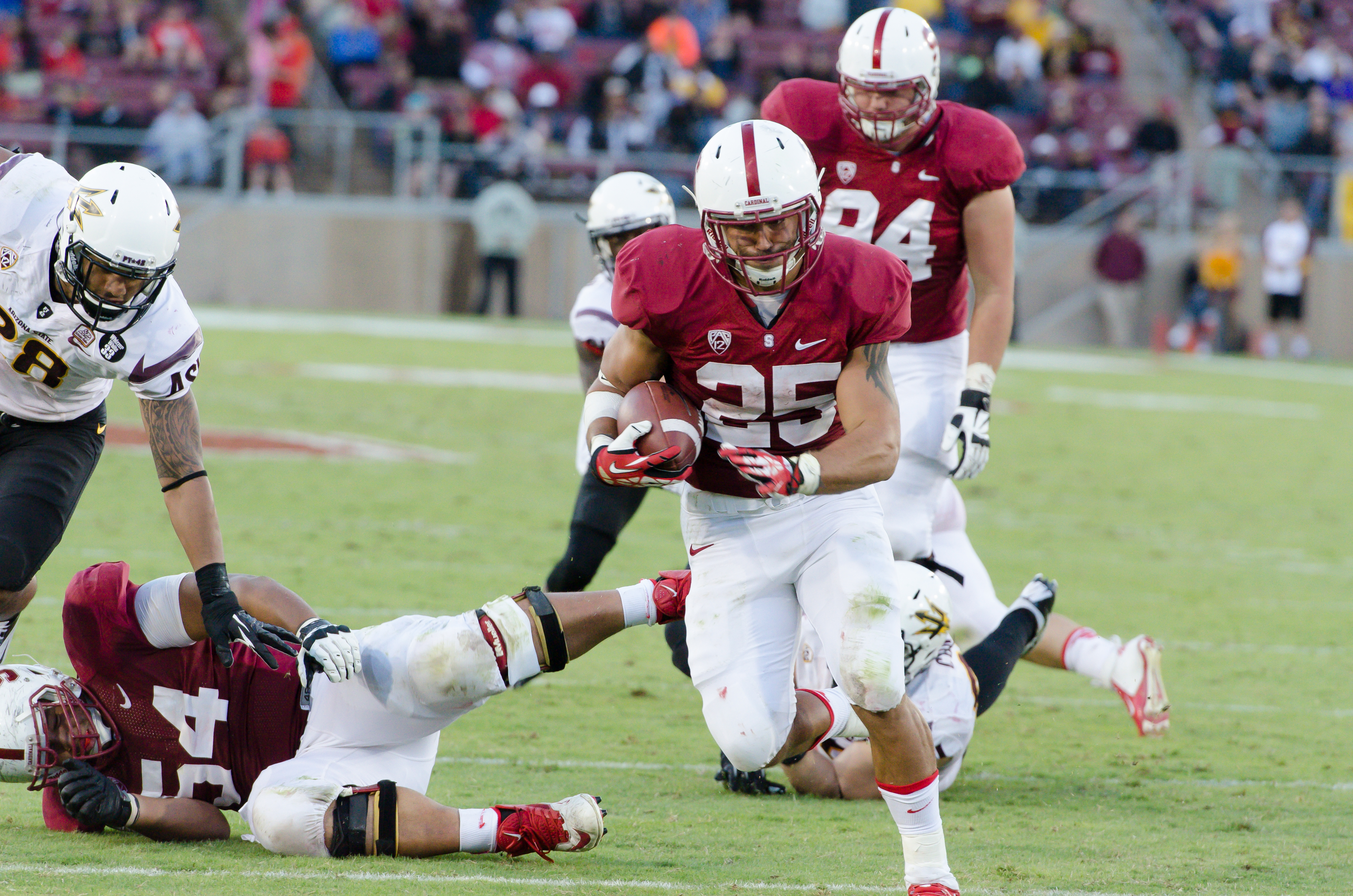 David Yankey, (54) offensive guard, creates a window for Tyler Gaffney (25). vs ASU 9/21/2013